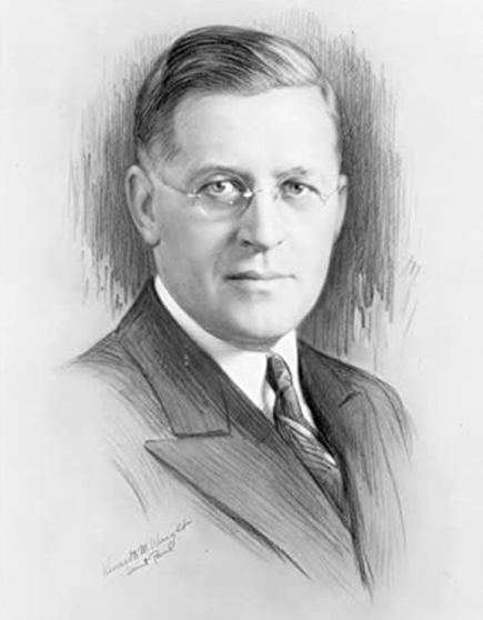 former Senator and Governor of Minnesota Elmer Austin Benson.